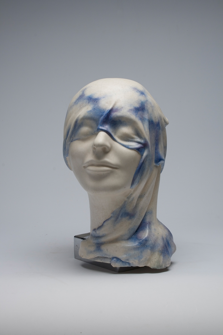 Jindra Viková, Decameron, 1979, stoneware